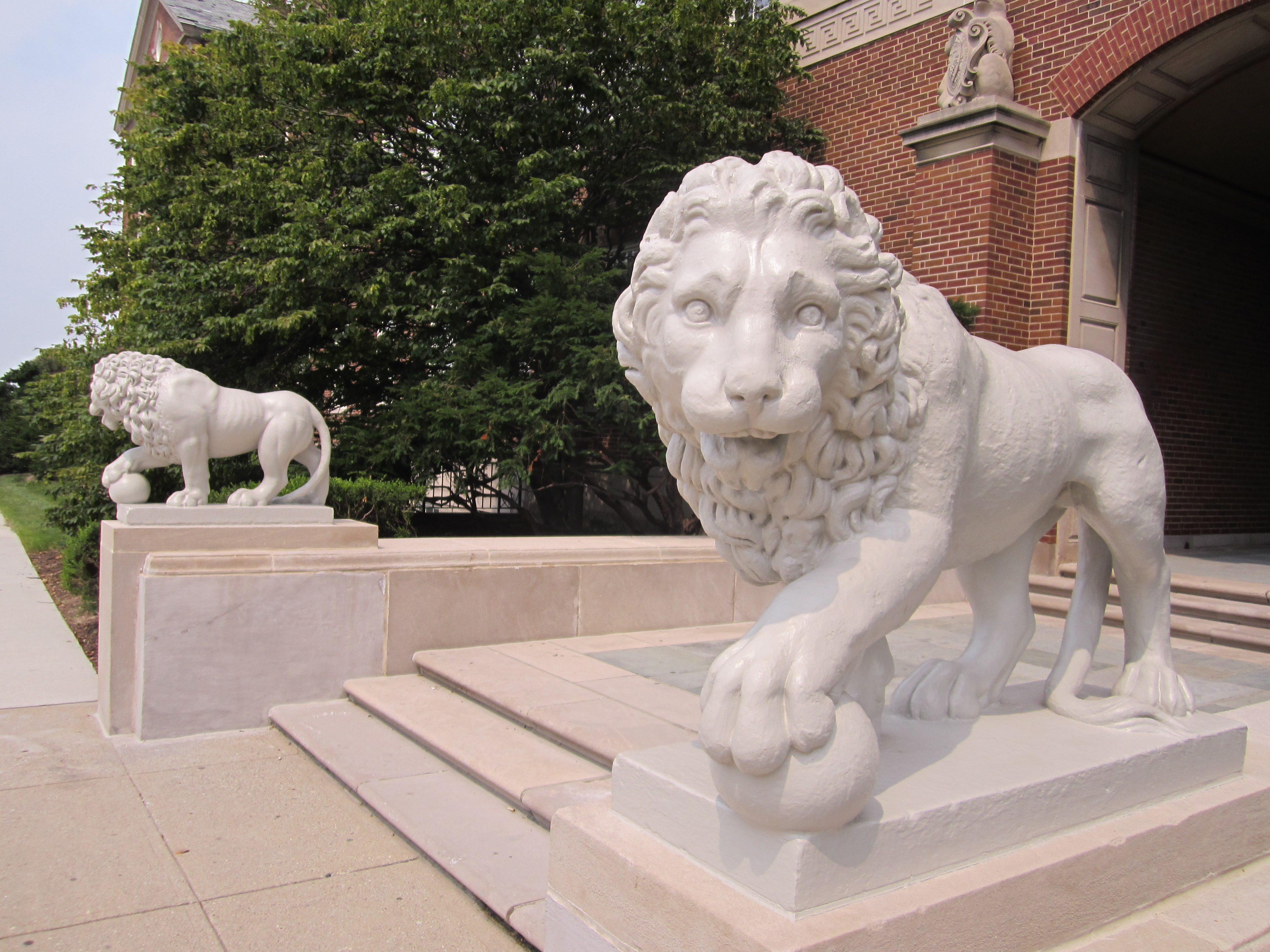 Mick & Mack, stone lions at the University of Cincinnati.